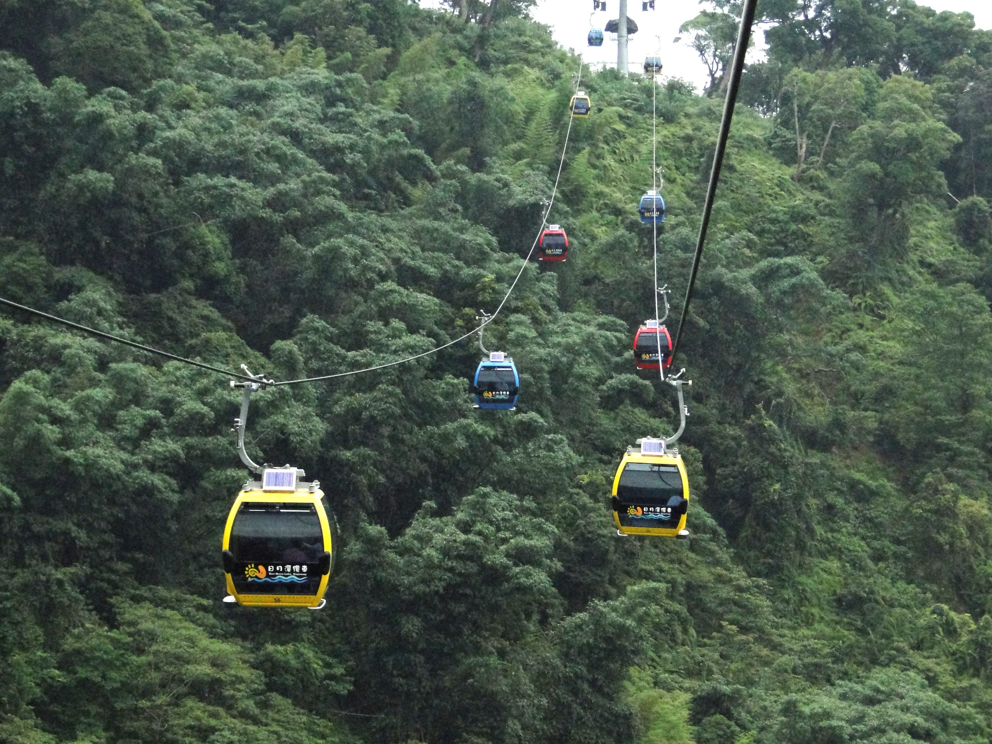 Sun Moon Lake Gondola, in Nantou County, Taiwan, R.O.C.中文（台灣）: 日月潭纜車，位於臺灣南投縣